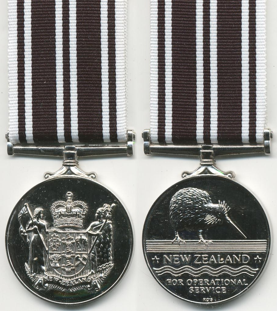 New_Zealand_-_Operational_Service_Medal.jpg